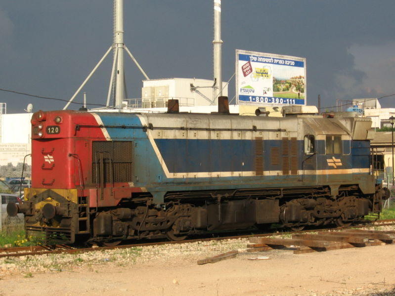 By Golf Bravo Israel Railway G12 loco #120 at Binyamina Station, November, 2006